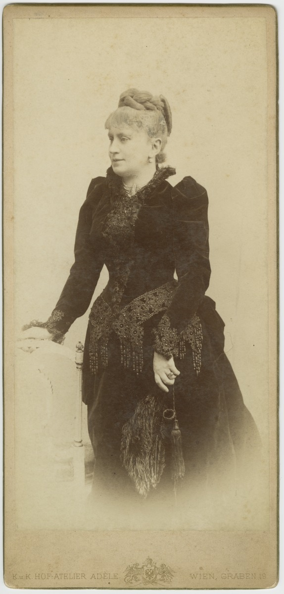 Helena Ziemiałkowska (1840-1917), wife Florian Ziemiałkowski, founder of the Polish House in Vienna